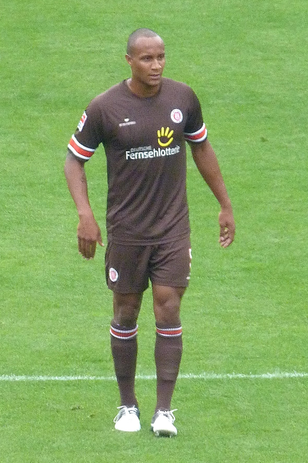 Christopher Avenor as Player by FC St. Pauli